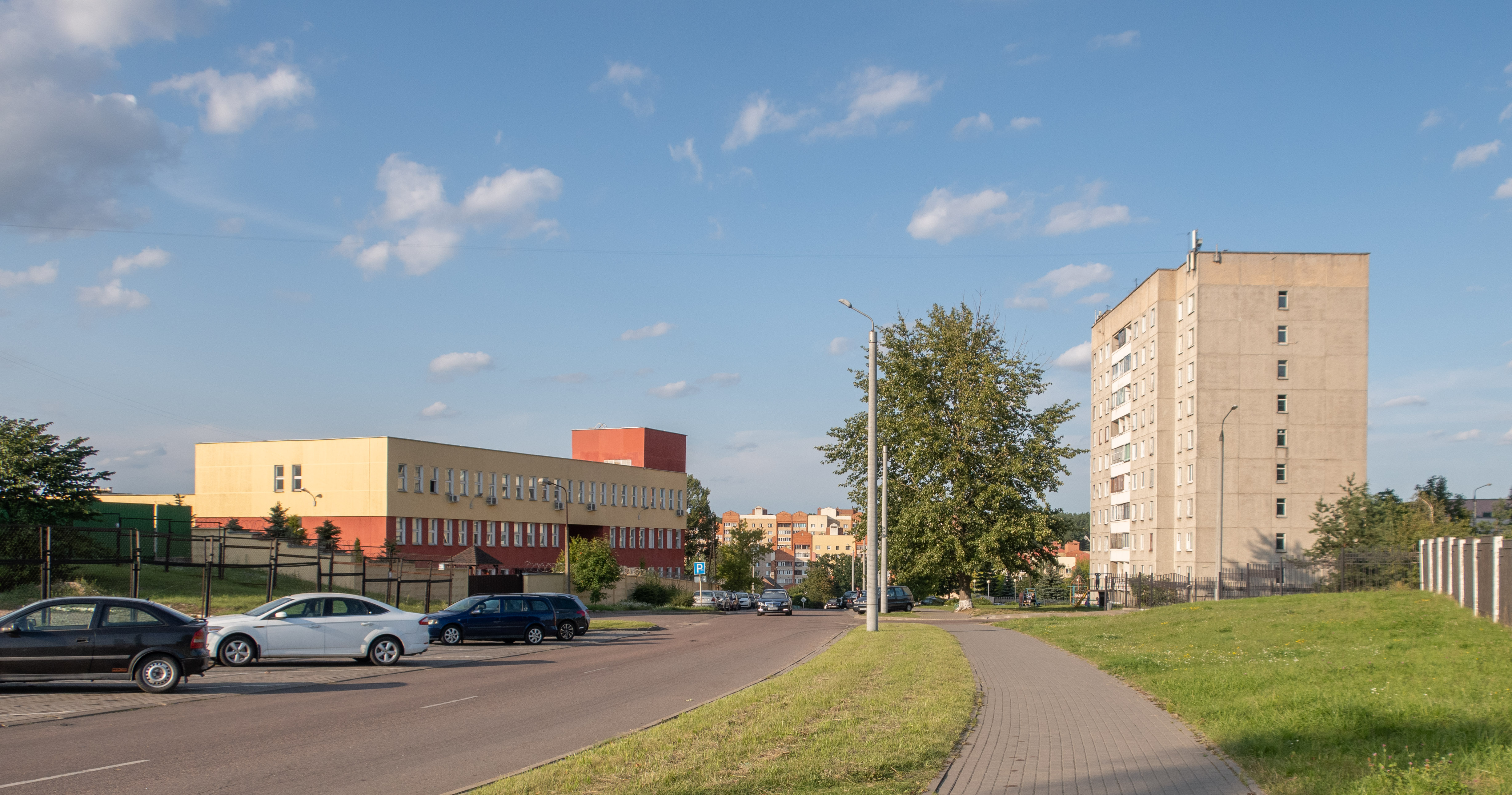 Dražnienski 2nd lane. Minsk, Belarus